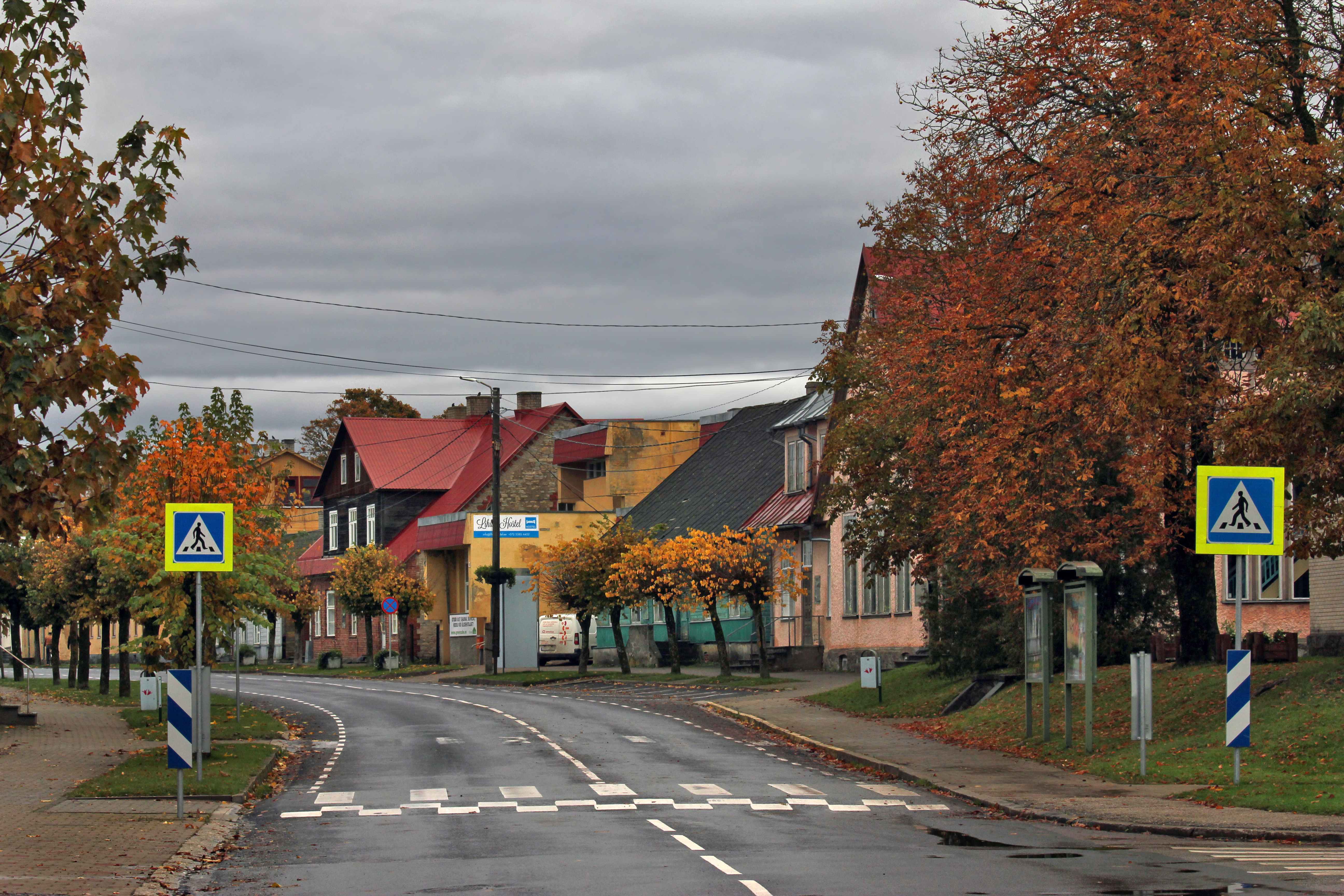 The main street of the town Lihula